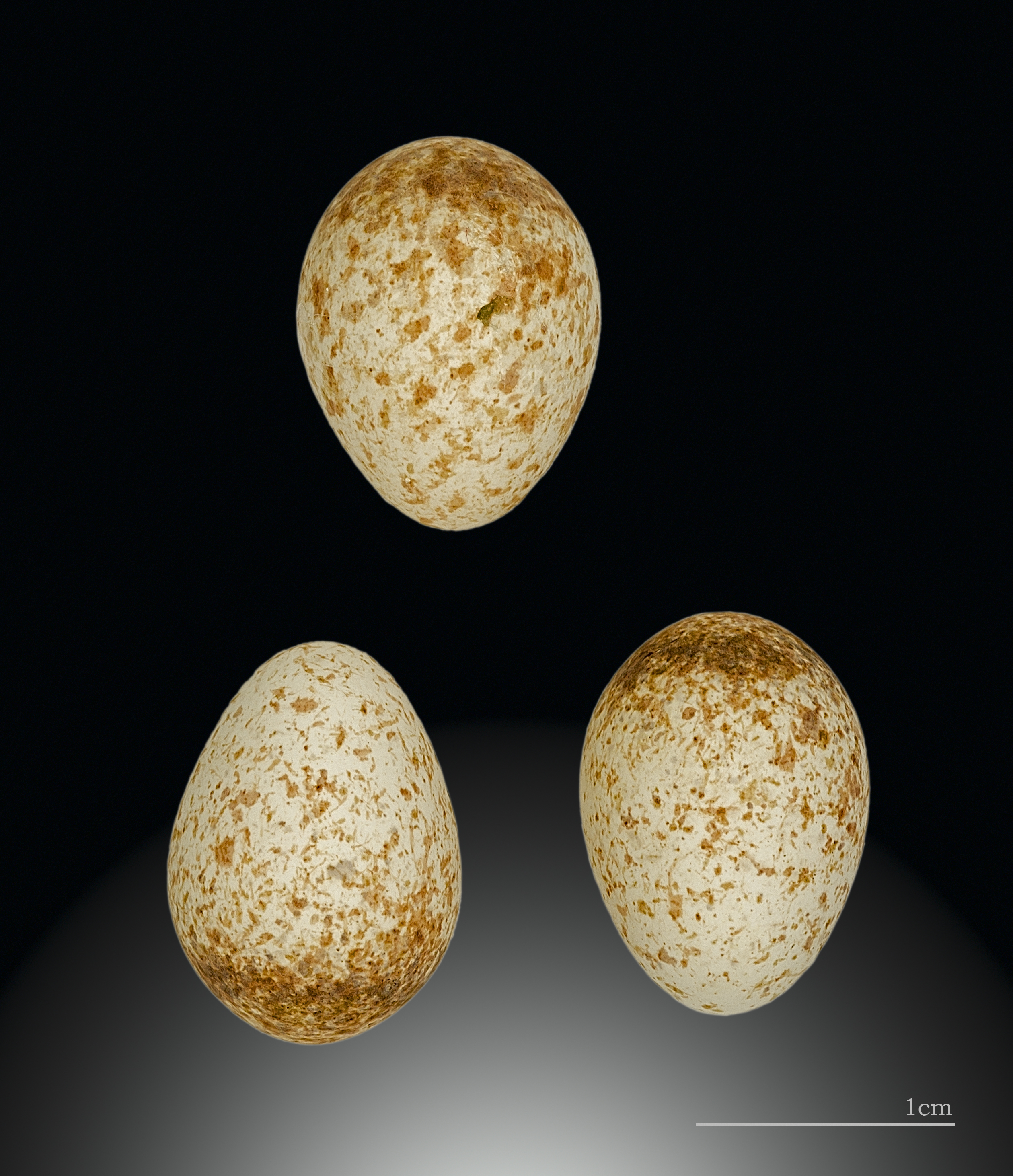 Egg of Madeira Firecrest. Collection of René de Naurois / Jacques Perrin de Brichambaut.